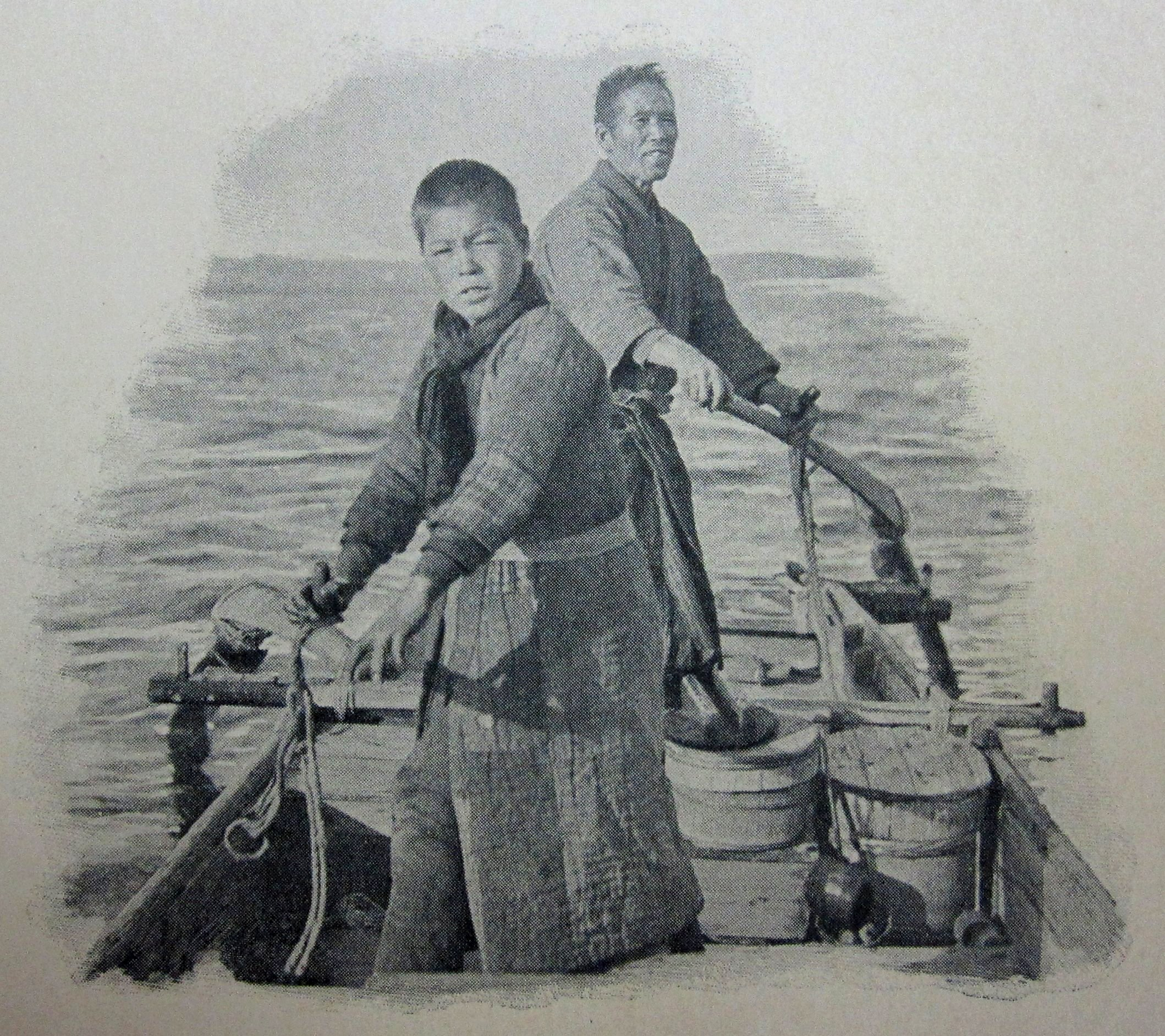 Chinese boatmen, typical for Manchuria and Russian Far East